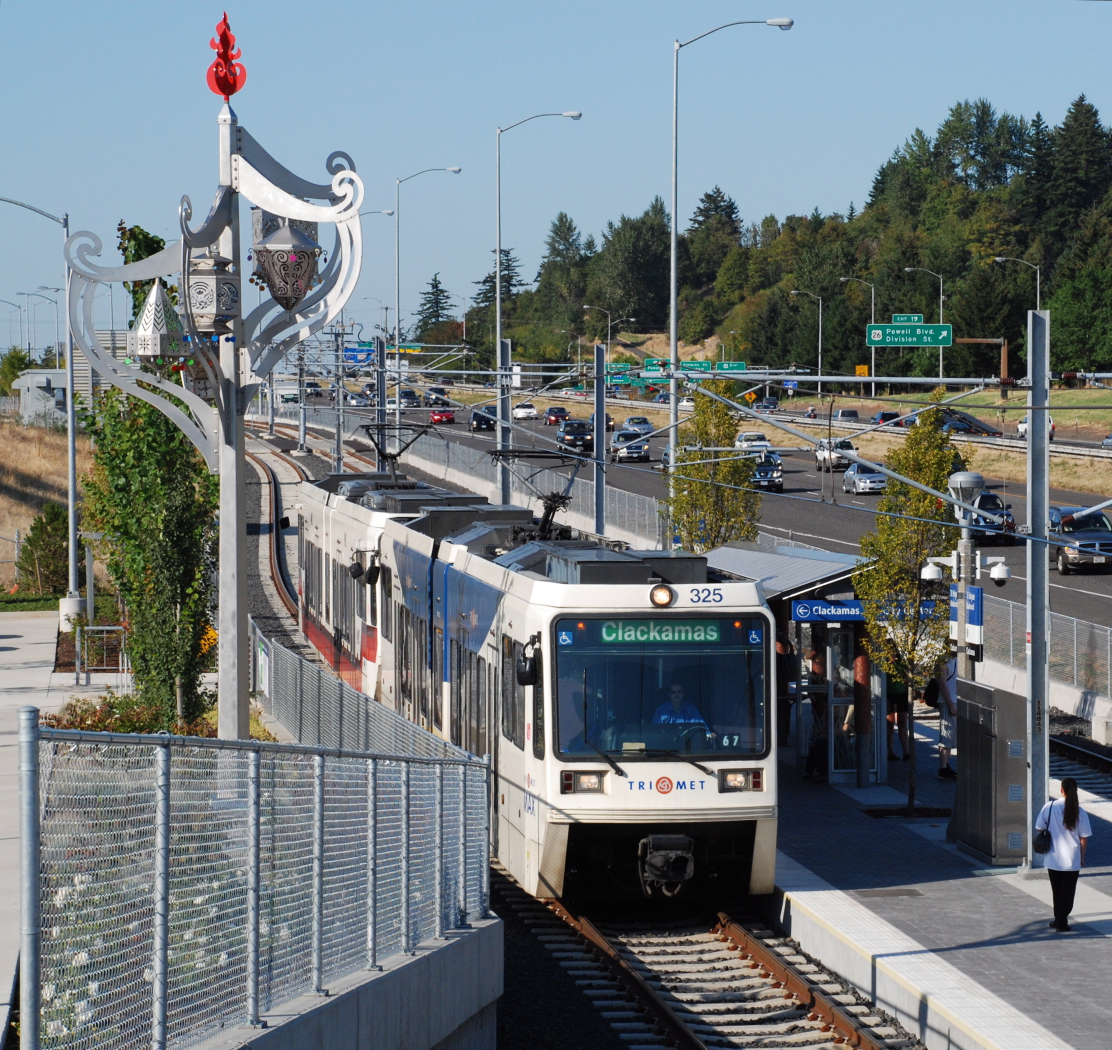 The SE Holgate Blvd station of the MAX Green Line of TriMet, in southeast Portland, Oregon. The light rail line runs along the I-205 freeway in this area. The sculpture at left, by artist Suzanne Lee, is entitled Shared Vision. The southbound train seen here consists of two SD660 light rail cars.